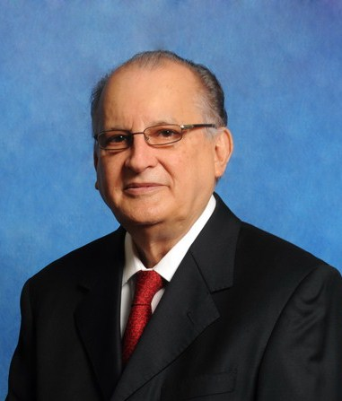 Sr. de la Espriella, member of the Board of Directors